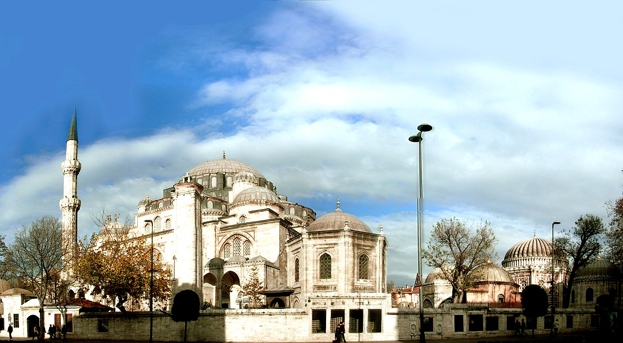 exterior view of sehzade mosque